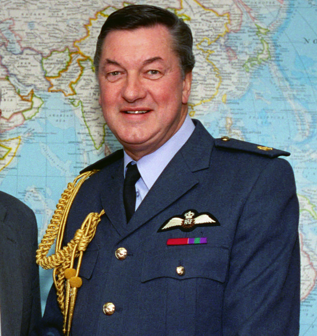 U.S. Secretary of Defense Les Aspin (left), poses for a photograph with Royal Air Force Air Marshal Sir Peter Harding during his visit at the Pentagon on Feb. 3, 1993